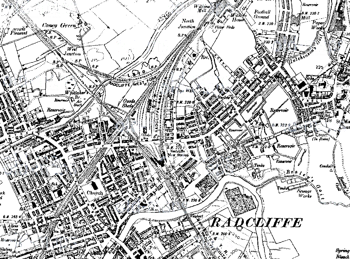 A map of Radcliffe, Greater Manchester, from a 1911 Ordnance Survey map. The original ELR line can be seen running bottom left to top right. The later L&YR line arrives from the bottom and curves right to meet the ELR line. Radcliffe New Station is roughly in the centre, Radcliffe Bridge Station is on the bottom left just underneath Green Street. Radcliffe Bridge (originally a hamlet of Radcliffe is at the bottom edge of the map, and Radcliffe (the original settlement) is to the extreme right.